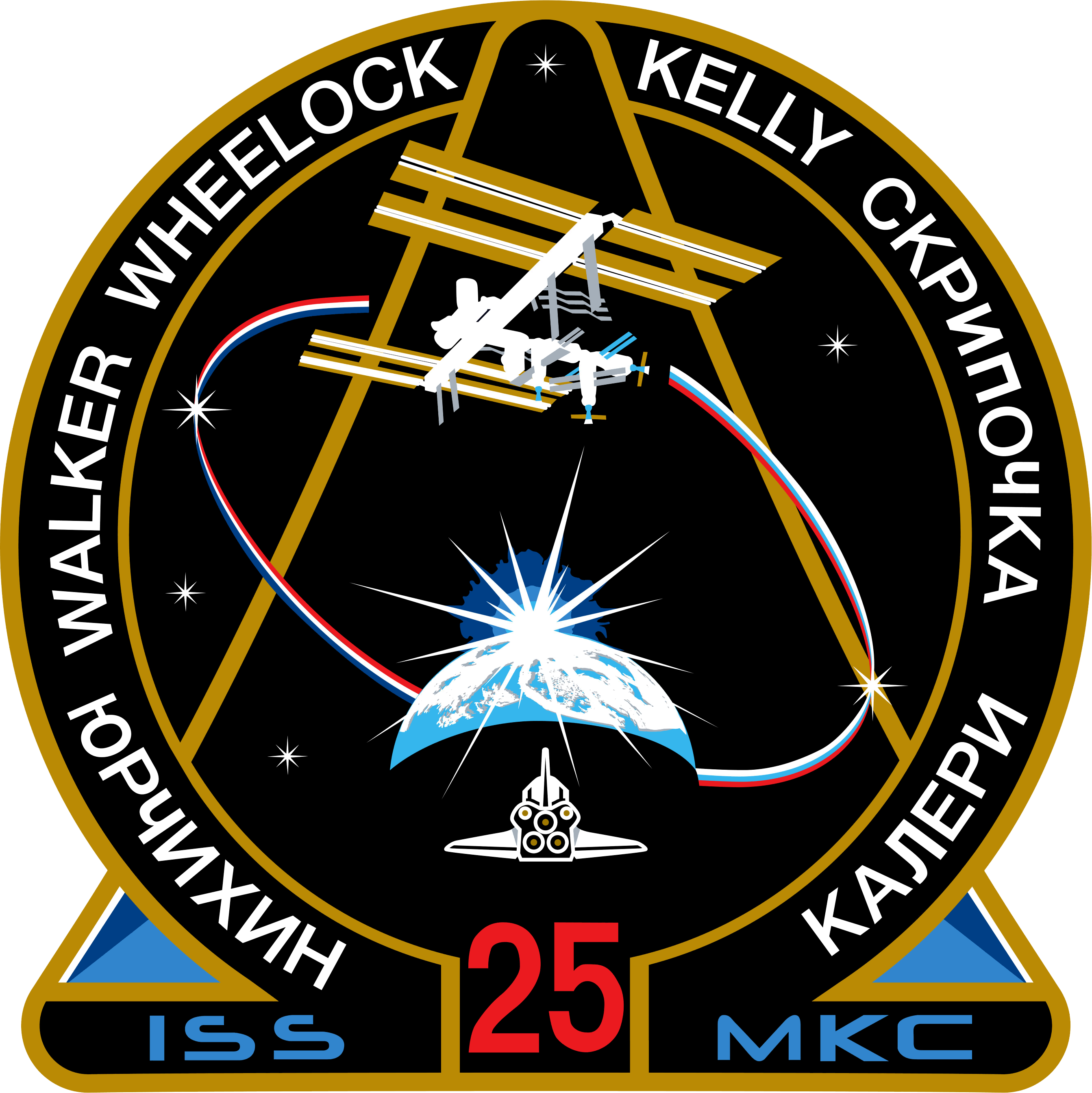 The mission patch design for the 25th Expedition to the International Space Station (ISS) pays tribute to the rich history of innovation and bold engineering in the quest for knowledge, exploration and discovery in space. The patch highlights the symbolic passing of the torch to the ISS, as the vehicle that will carry us into the future of space exploration. The Space Shuttle Program emblem is the foundation of the patch and forms the Greek letter 'Alpha' with a new dawn breaking at the center, symbolizing a new vision for space exploration. The Alpha symbol is overlaid by the Greek letter 'Omega', paying tribute to the culmination of the Space Shuttle Program. The mission designation '25' is shown centered at the bottom of the patch, symbolizing the point in time when the Space Shuttle, the workhorse of the ISS assembly process, will make its final visit to the ISS. Between the '25' and the Earth crescent, the orbiter is shown returning to Earth on its final journey, during the Expedition 25 mission. Above Earth and the breaking dawn, the ISS takes center-stage, completed and fully equipped to carry us beyond this new dawn to new voyages and discoveries. The orbit connecting the ISS and the Earth is drawn in the colors of the United States and Russian flags; paying tribute to the blended heritage of the crew. The two largest stars in the field represent the arrival and departure of the crews in separate Russian Soyuz vehicles. The six stars in the field represent the six crew members. The International Space Station abbreviation 'ISS' and 'MKC' - in English and Russian, respectively - flank the mission number designation, and the names of the crew members in their native languages border the ISS symbol.